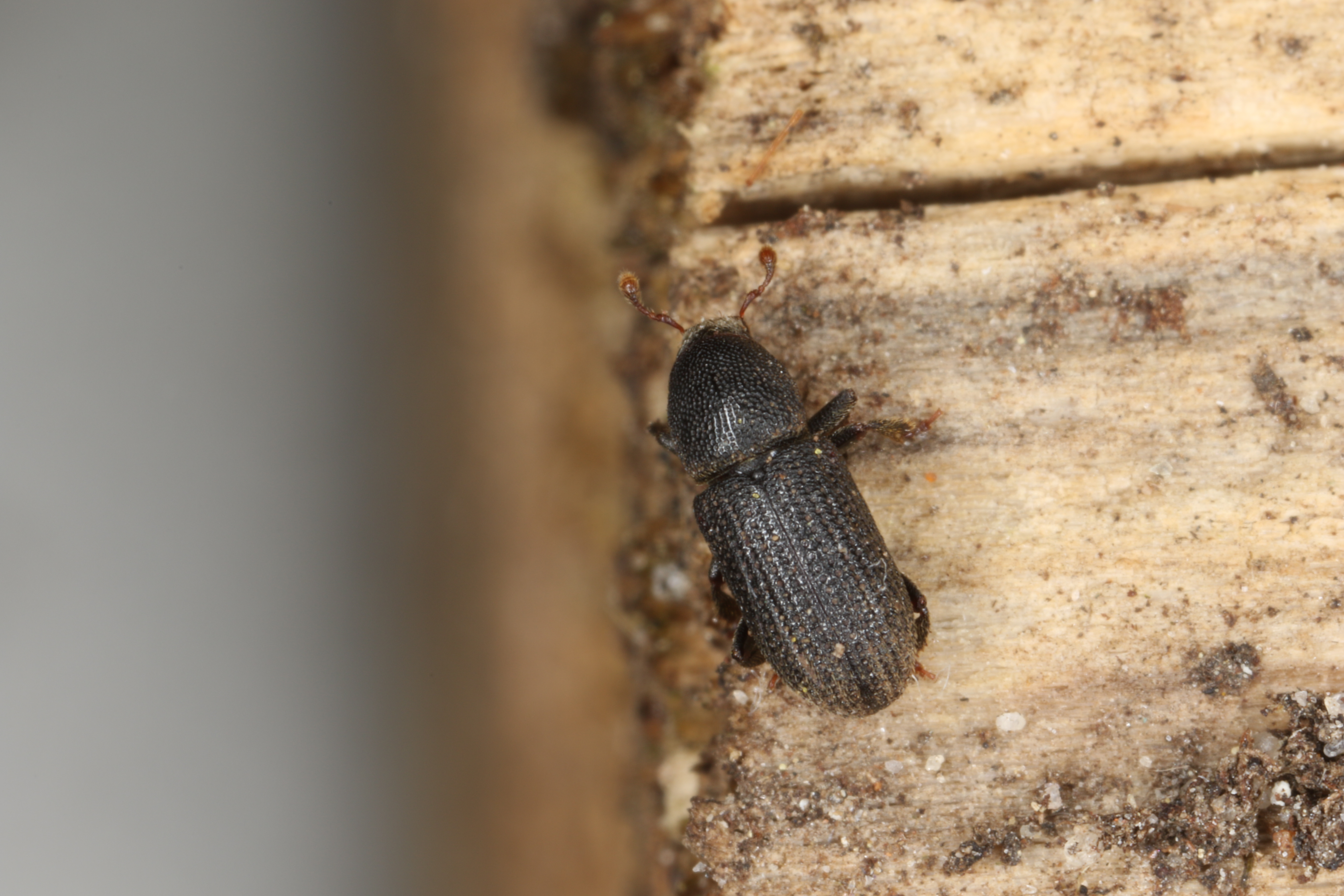 Hylastes opacus Erichson 1836, swept from ivy, Søborg, Denmark, 7 May 2016